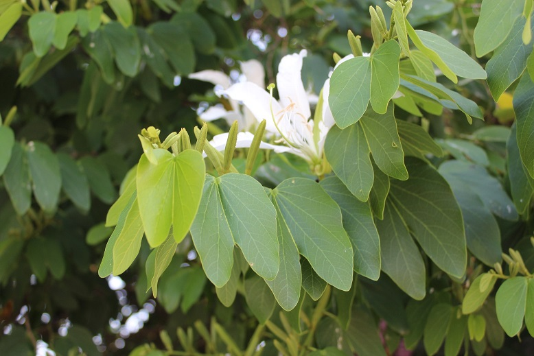 Bauhinia forficata branch with flowers San Francisco de Mostazal